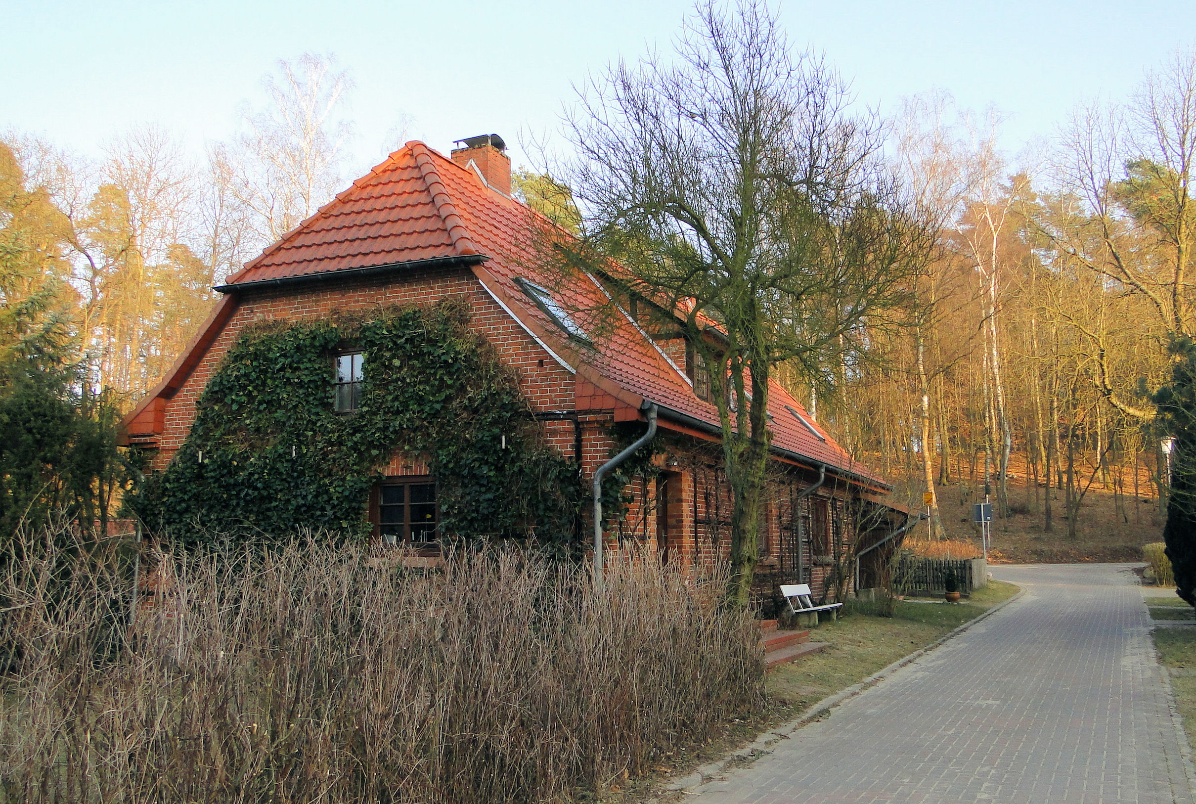 Building in Kleesten, district Parchim, Mecklenburg-Vorpommern, Germany